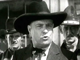 Edward Peil, Sr. from the public domain movie Blue Steel (1934).